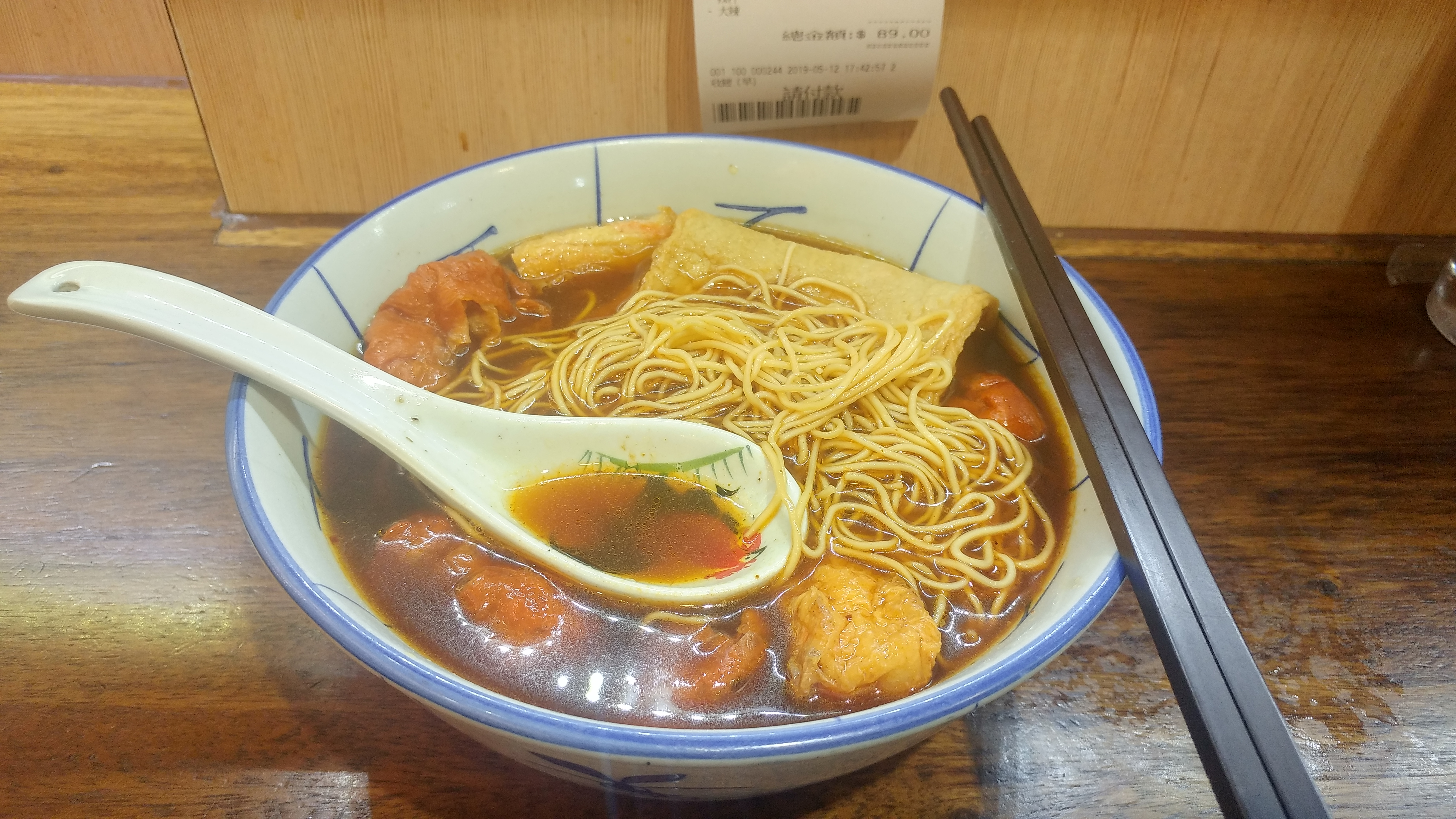 A bowl of cart noodles, at Man Kee, a cart noodles restaurant in Sham Shui Po, Kowloon, Hong Kong. This is served with thin noodles, sour wheat gluten (酸齋) and fish curd (魚腐).